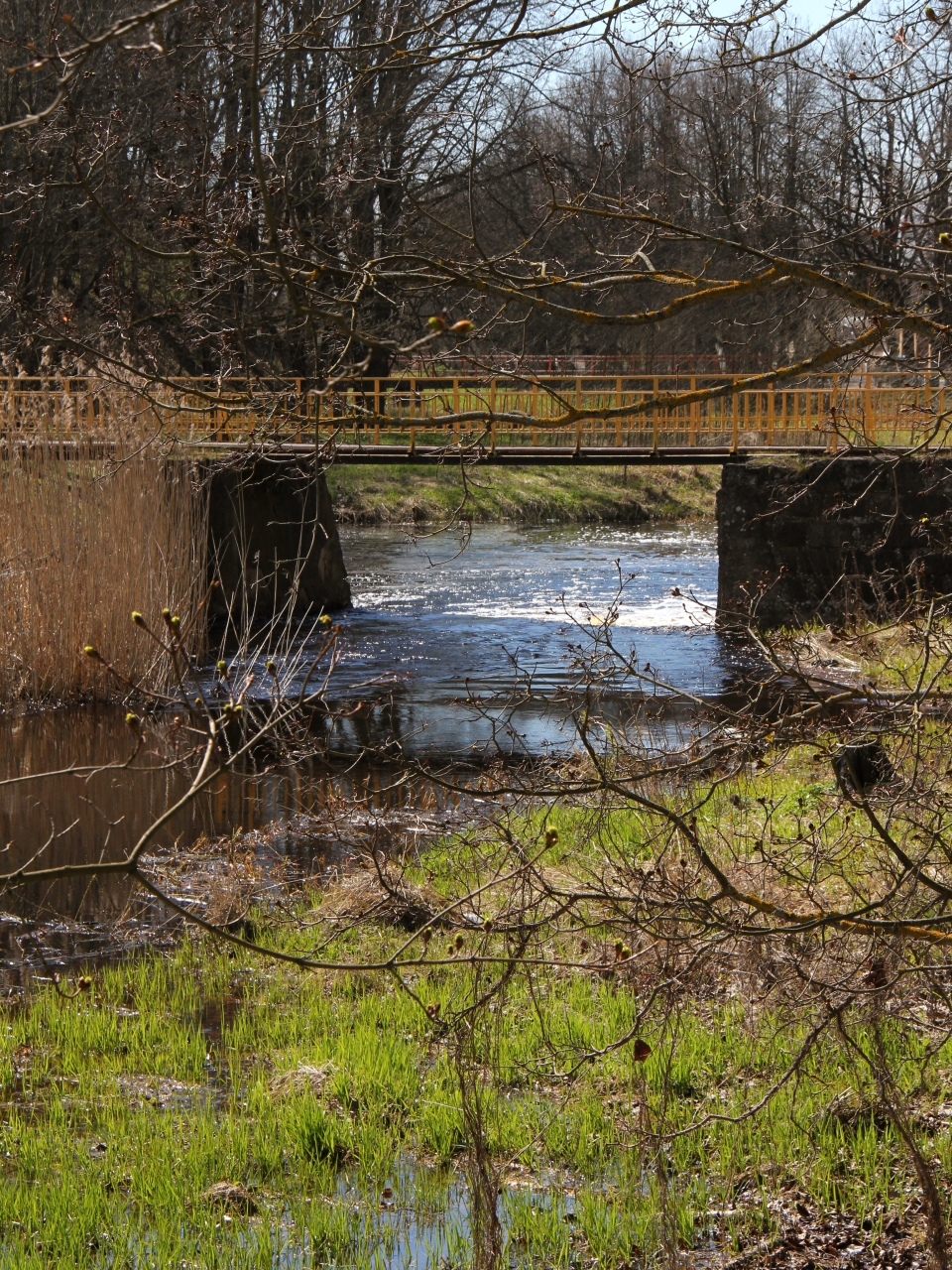 Gdov, bridge over Gdovka river